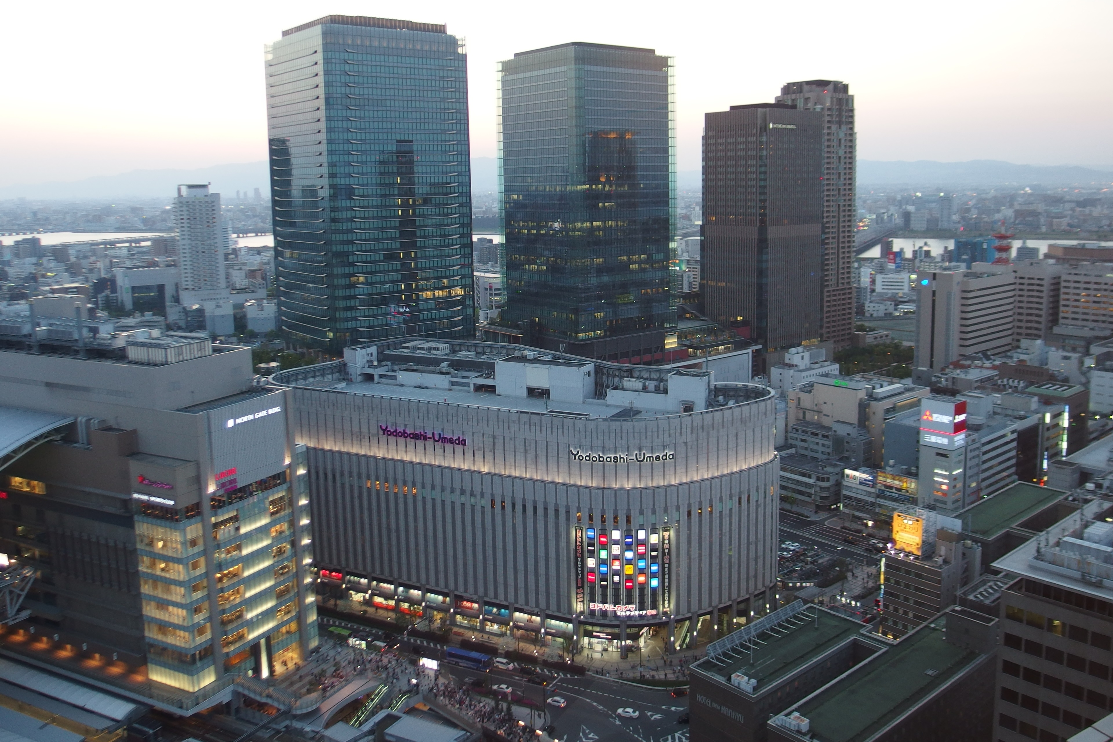 Grand Front Osaka, Yodobashi Umeda in Osaka, Osaka Prefecture, Japan